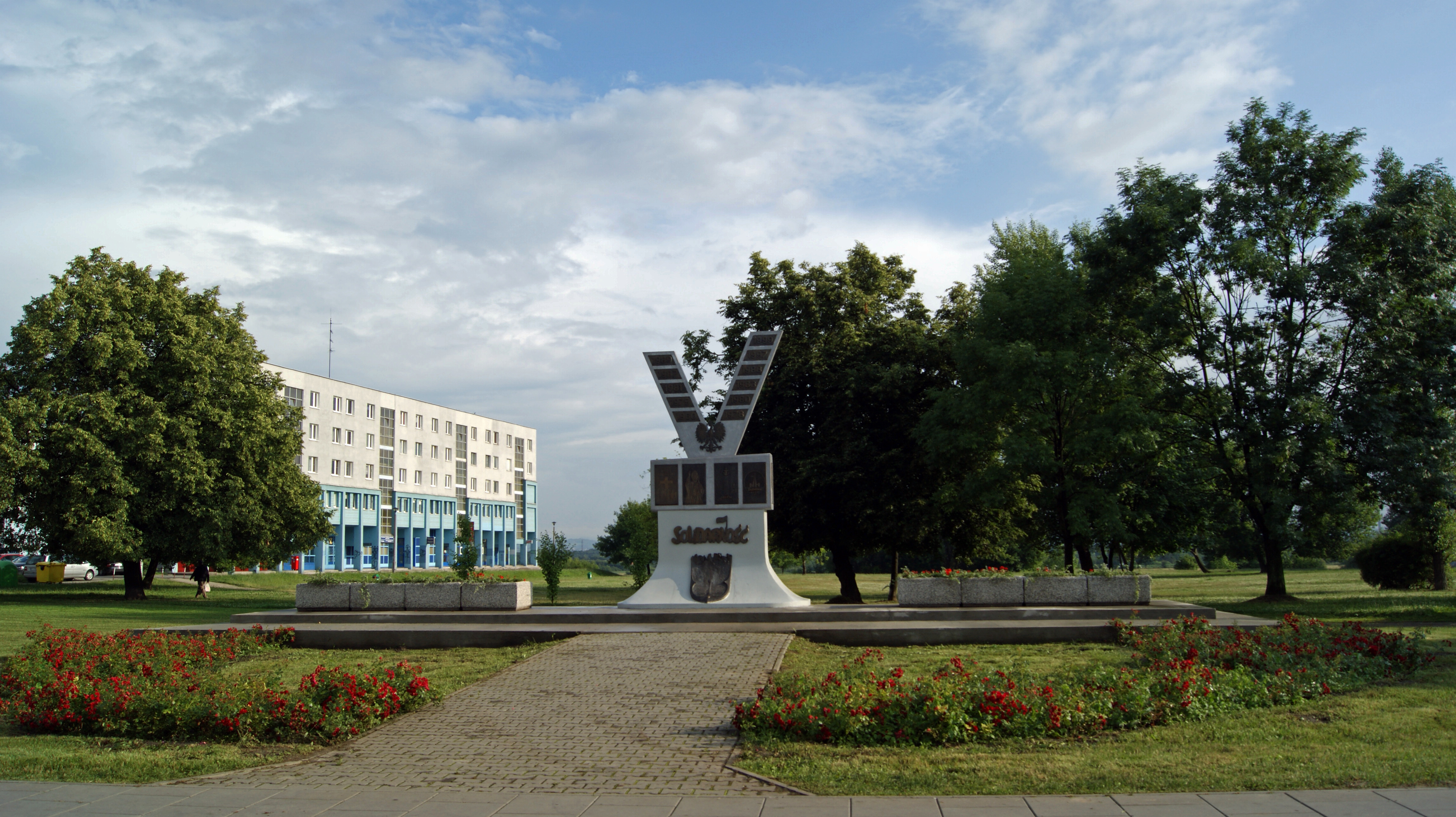 Solidarity Memorial, Centralny square, Nowa Huta, Krakow, Poland